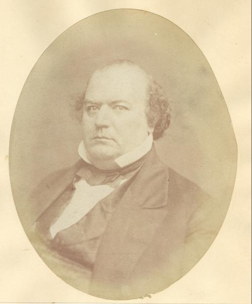 George H. Walker was one of the founders of Milwaukee and a legislator in early Wisconsin